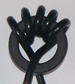 Simple 1:1 home made balun.